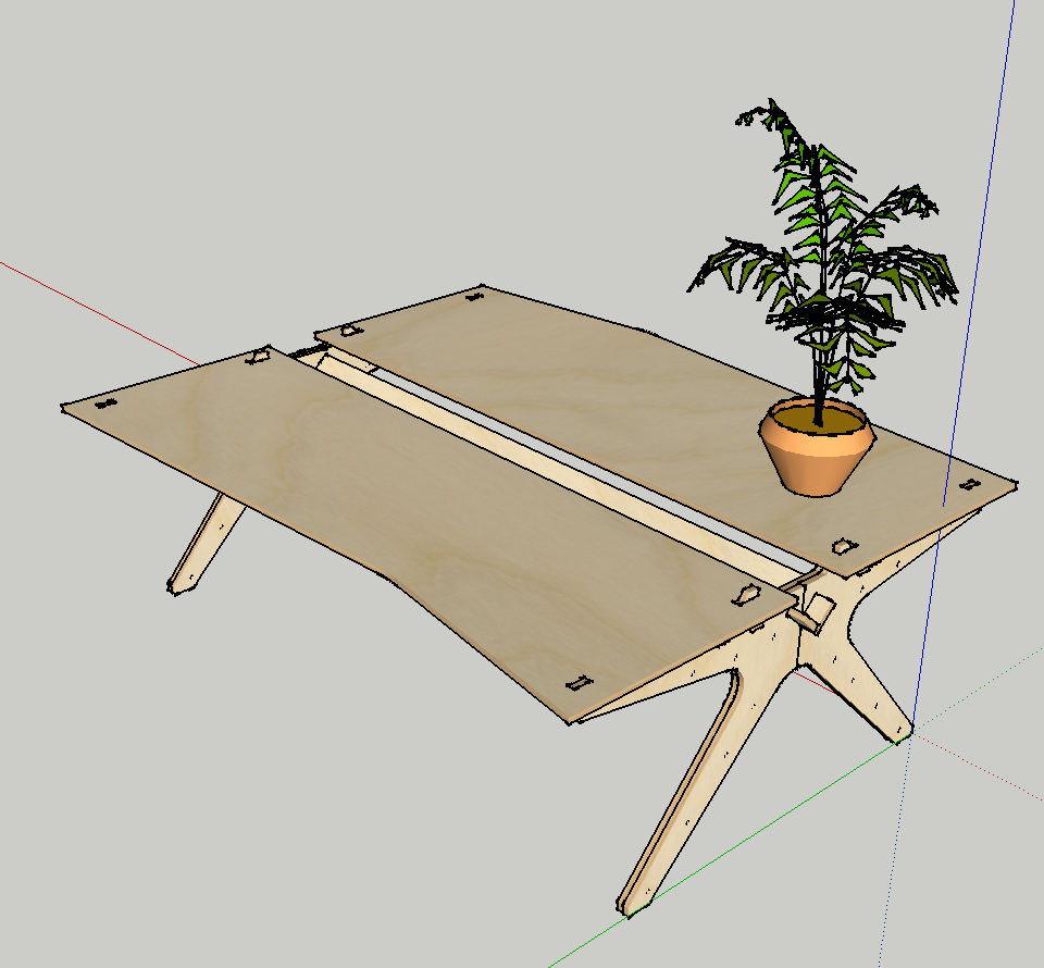 Sketch of the original OpenDesk design